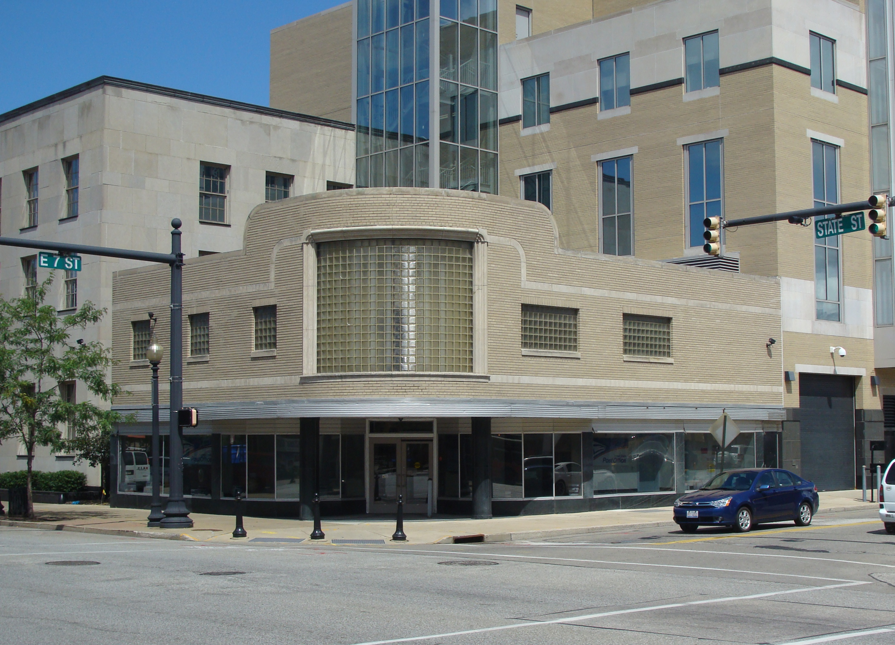 The Baker Building, a former clothing store, is now part of the Erie Federal Courthouse complex in Erie, Pennsylvania.